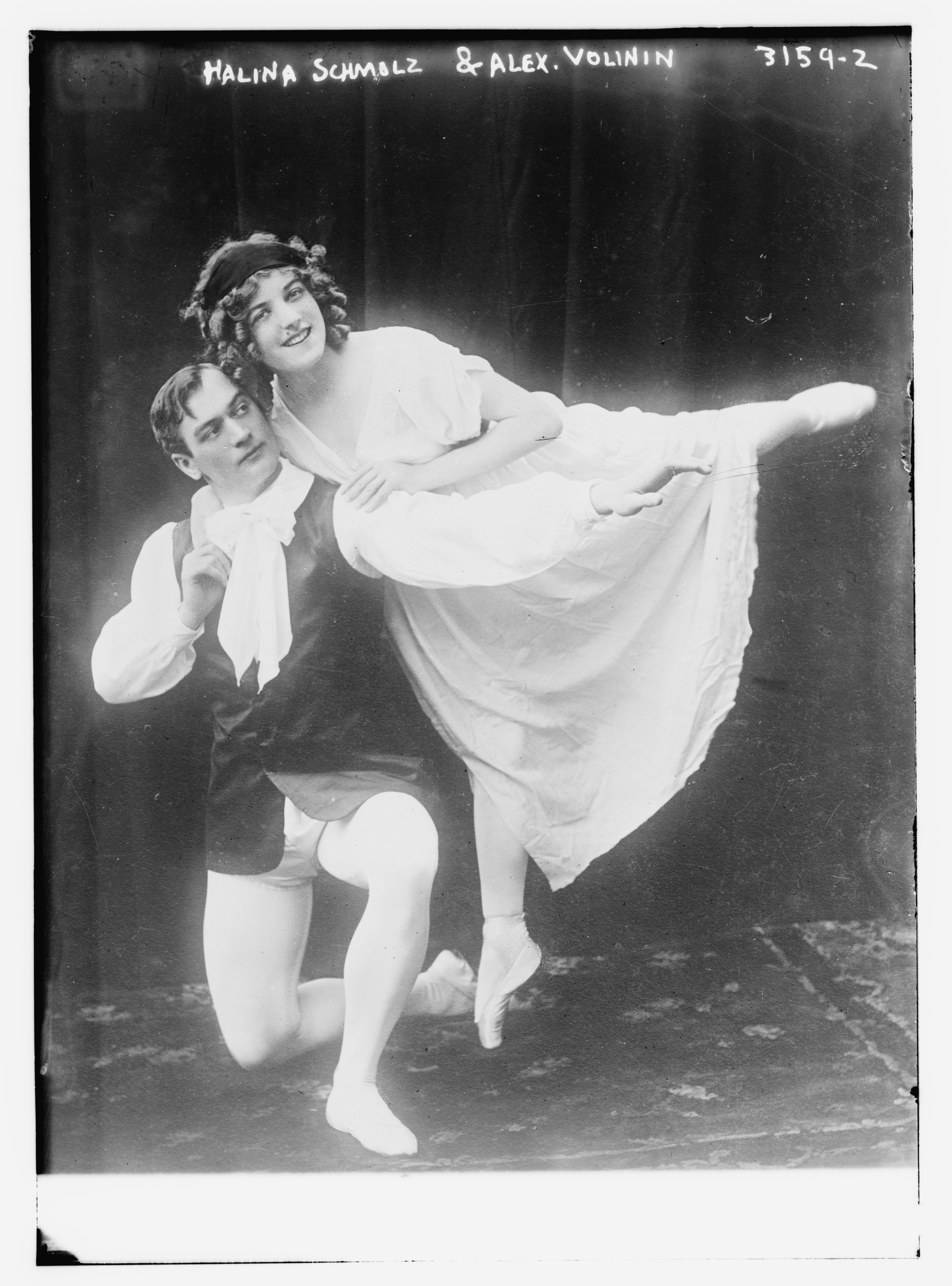 Title: Halina Schmolz & Alex Volinin Abstract/medium: 1 negative : glass ; 5 x 7 in. or smaller.